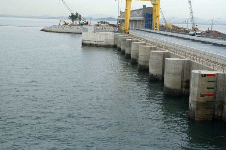 Sihwa Lake Tidal Power Station